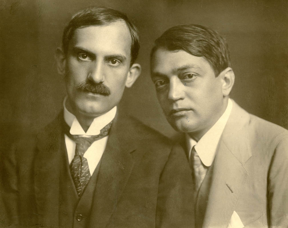 Portrait of Endre Ady and Mihály Babits. Photograph by Aladár Székely National Széchényi Library LocationBudapestCoordinates47° 29′ 53.34″ N, 19° 02′ 14.4″ E Established1802Web page control : Q1063819 VIAF: 157919295 ISNI: 0000 0001 1781 8798 ULAN: 500306655 LCCN: n79076057 NLA: 35722893 WorldCat institution QS:P195,Q1063819